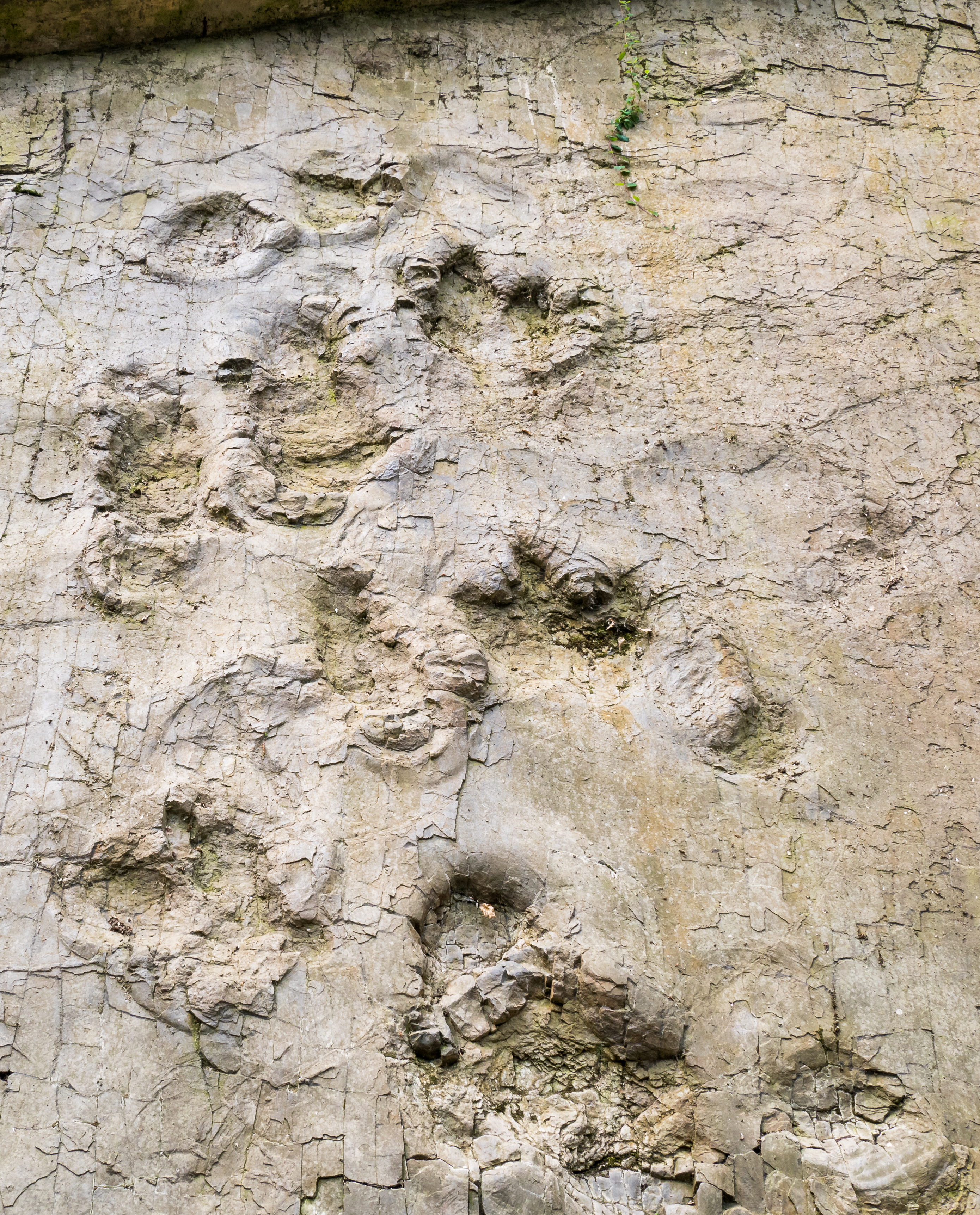 Dinosaur tracks (Sauropoda/Theropoda) at Barkhausen. Bad Essen, Osnabrück Land, Lower Saxony, Germany